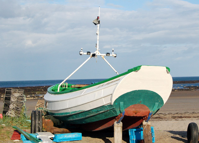 Coble on shore at Boulmer (2) Cobles are clinker-built open fishing boats unique to the north east coast of England. Characteristics include shallow draft for landing and launching from beaches, twin keels, high bow to cope with heavy seas and launching into surf, a steeply raked transom, and a tarpaulin shelter instead of a cabin. Originally, cobles were sailed (with a simple squaresail rig) but most are now motorised.